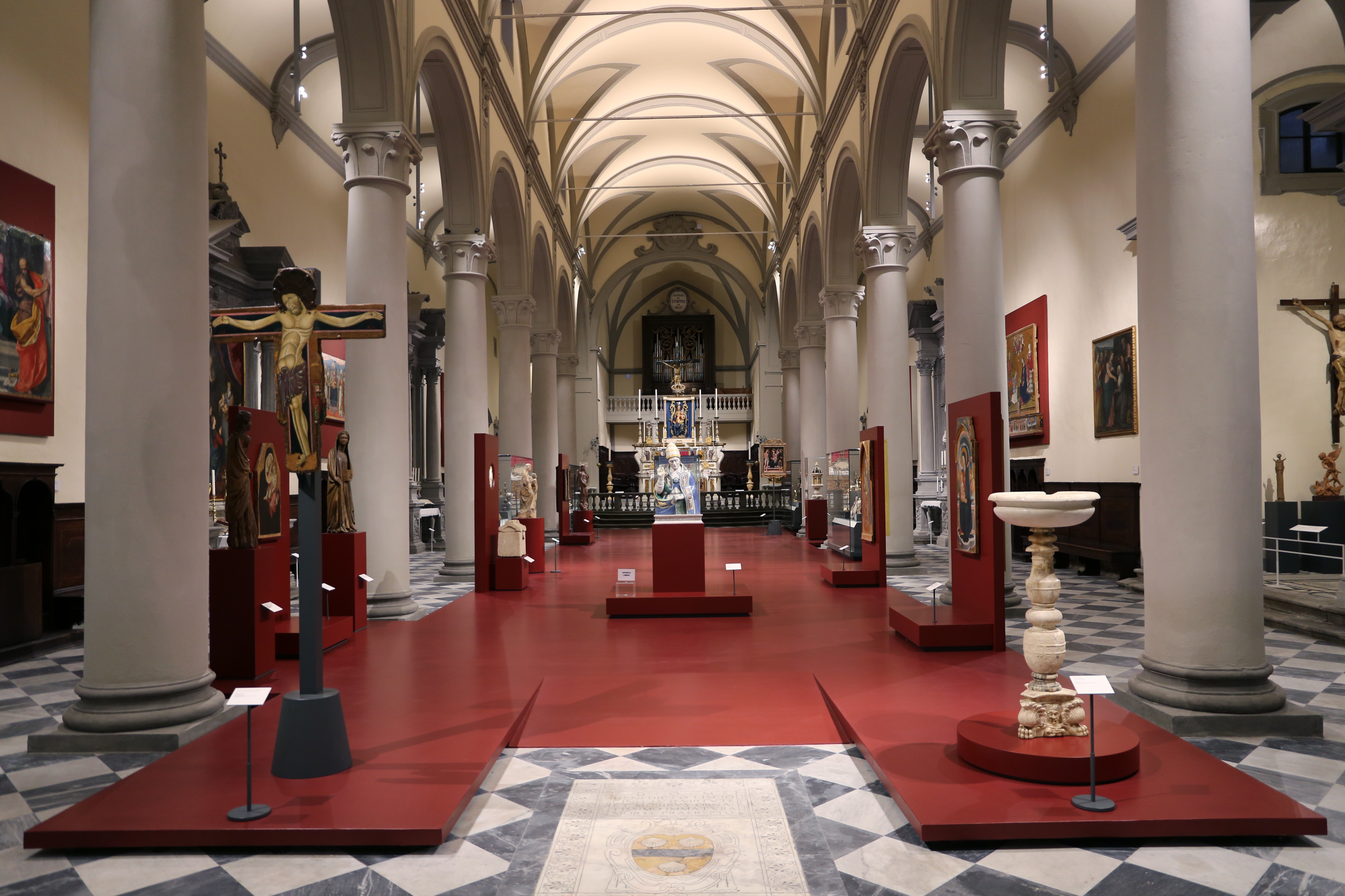 Museo diocesano (Volterra)